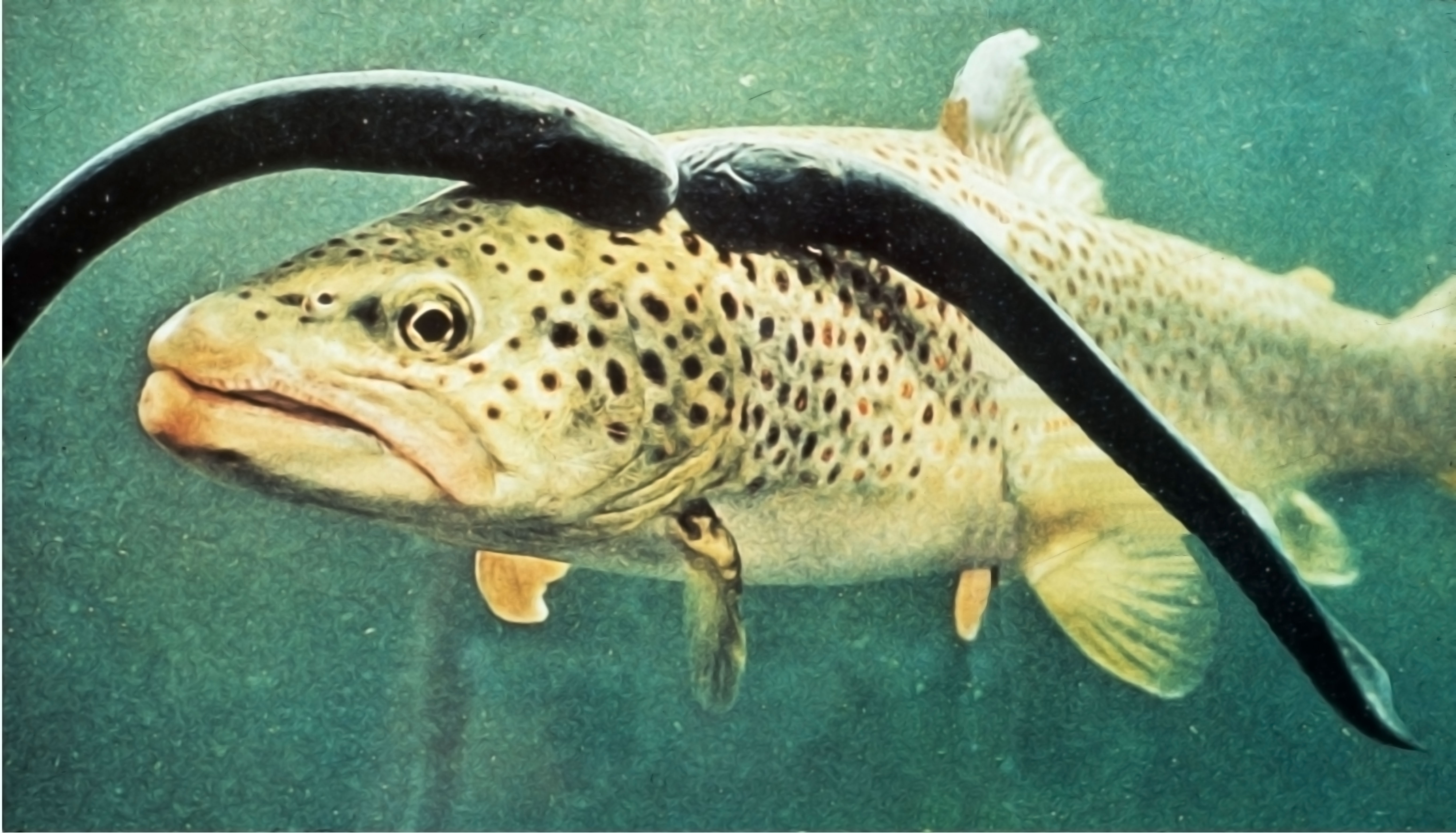 Sea lamprey on brown trout, facing left